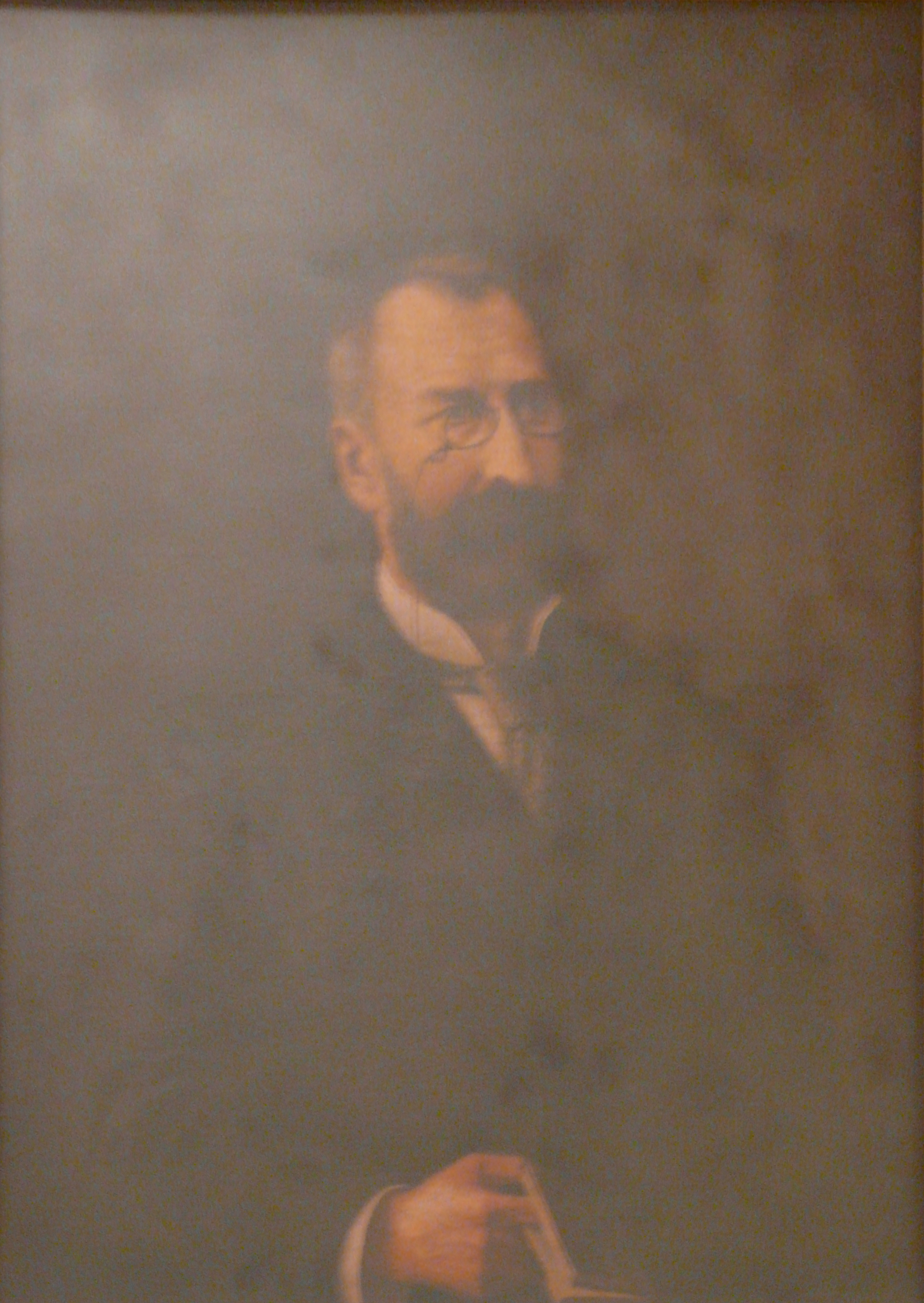 Karol Klobassa Zrencki (1823-1886), author unknown, reproduction of a portrait so dated to before 1886